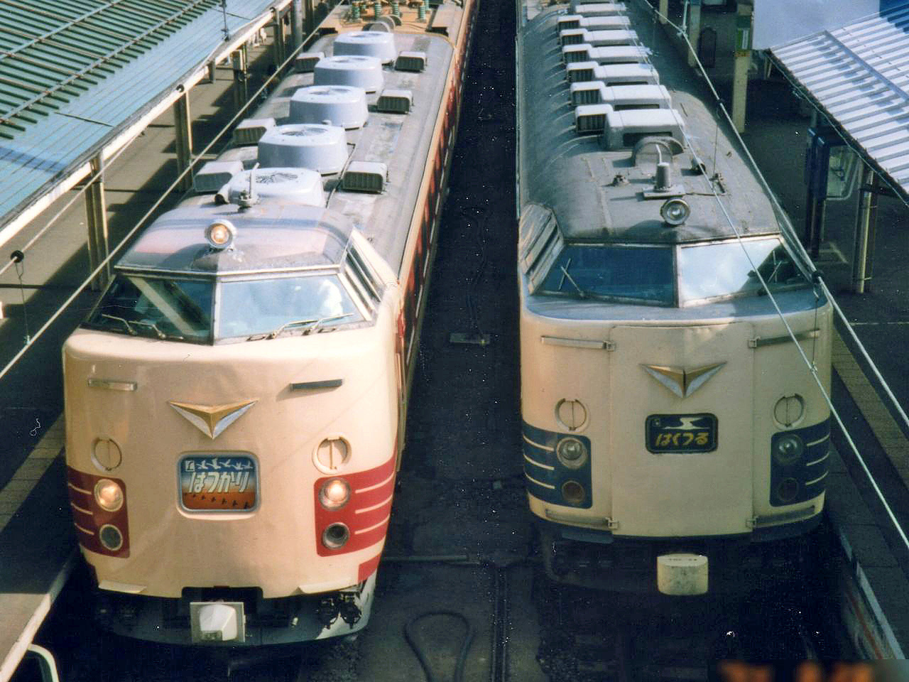 JR East 485 series EMU (left) on a "Hatsukari" limited express and 583 series EMU (right) on a "Hakutsuru" overnight limited express at Aomori Station